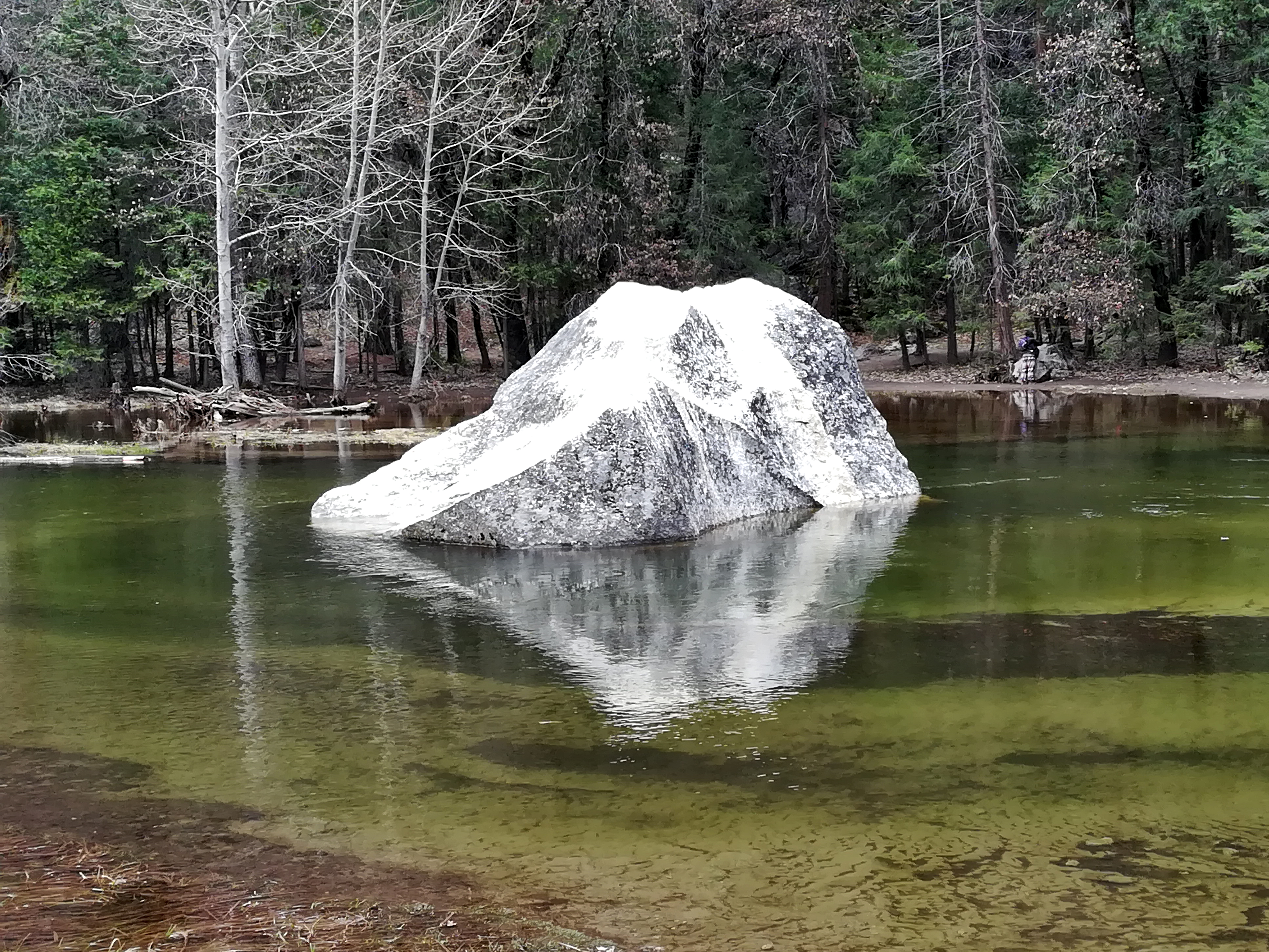 Yosemite Nationalpark - Mirror Lake